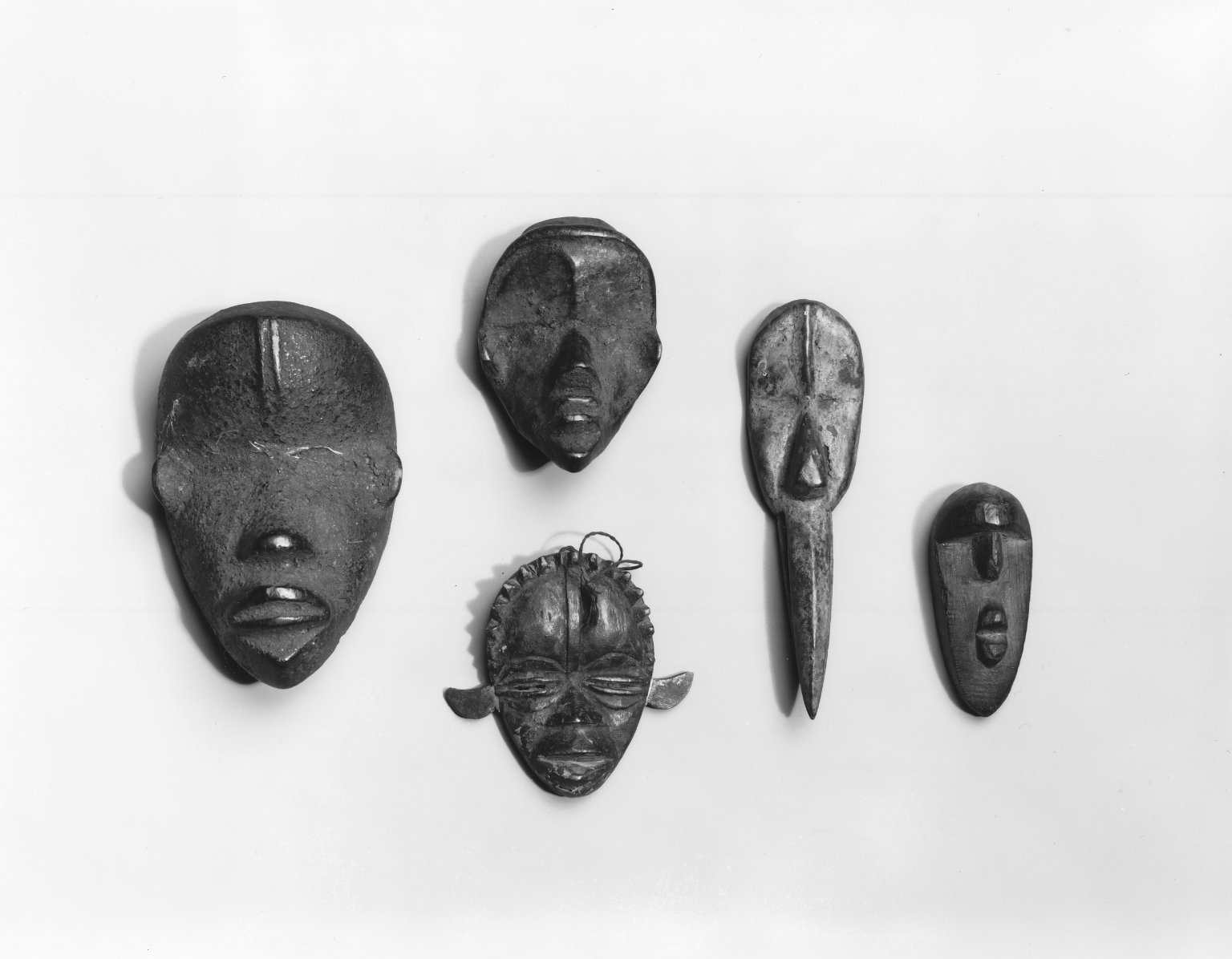 Personal Miniature Mask